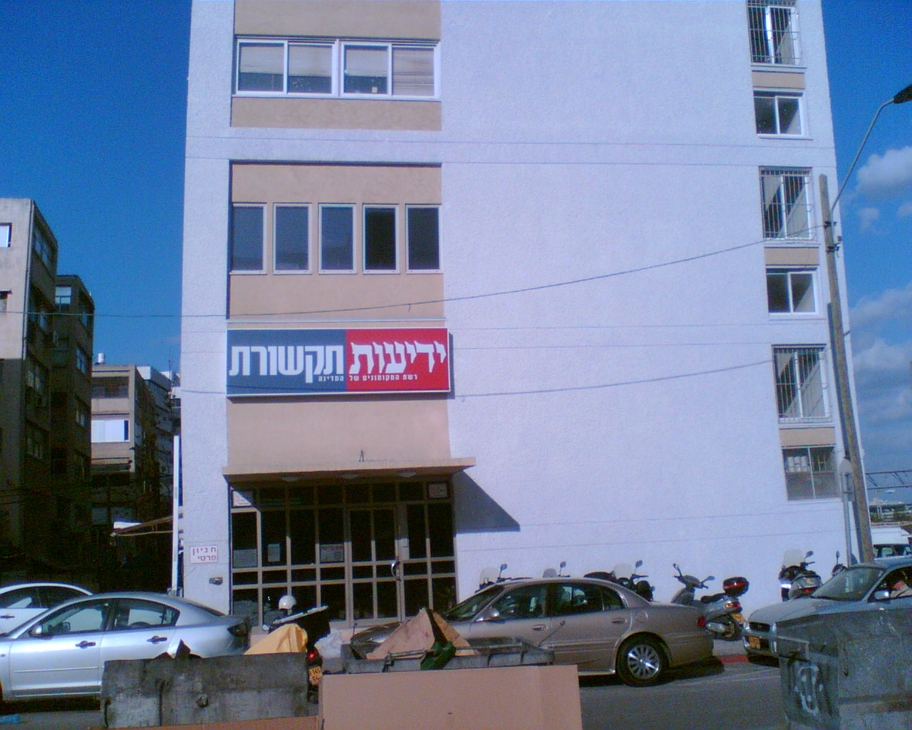 Yedioth Tikshoret house, Tel Aviv